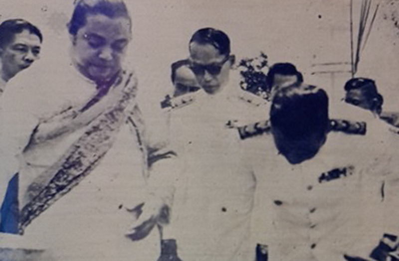 Phraya Phichai Dap Hak Monument in 1970 on Uttaradit Town Hall